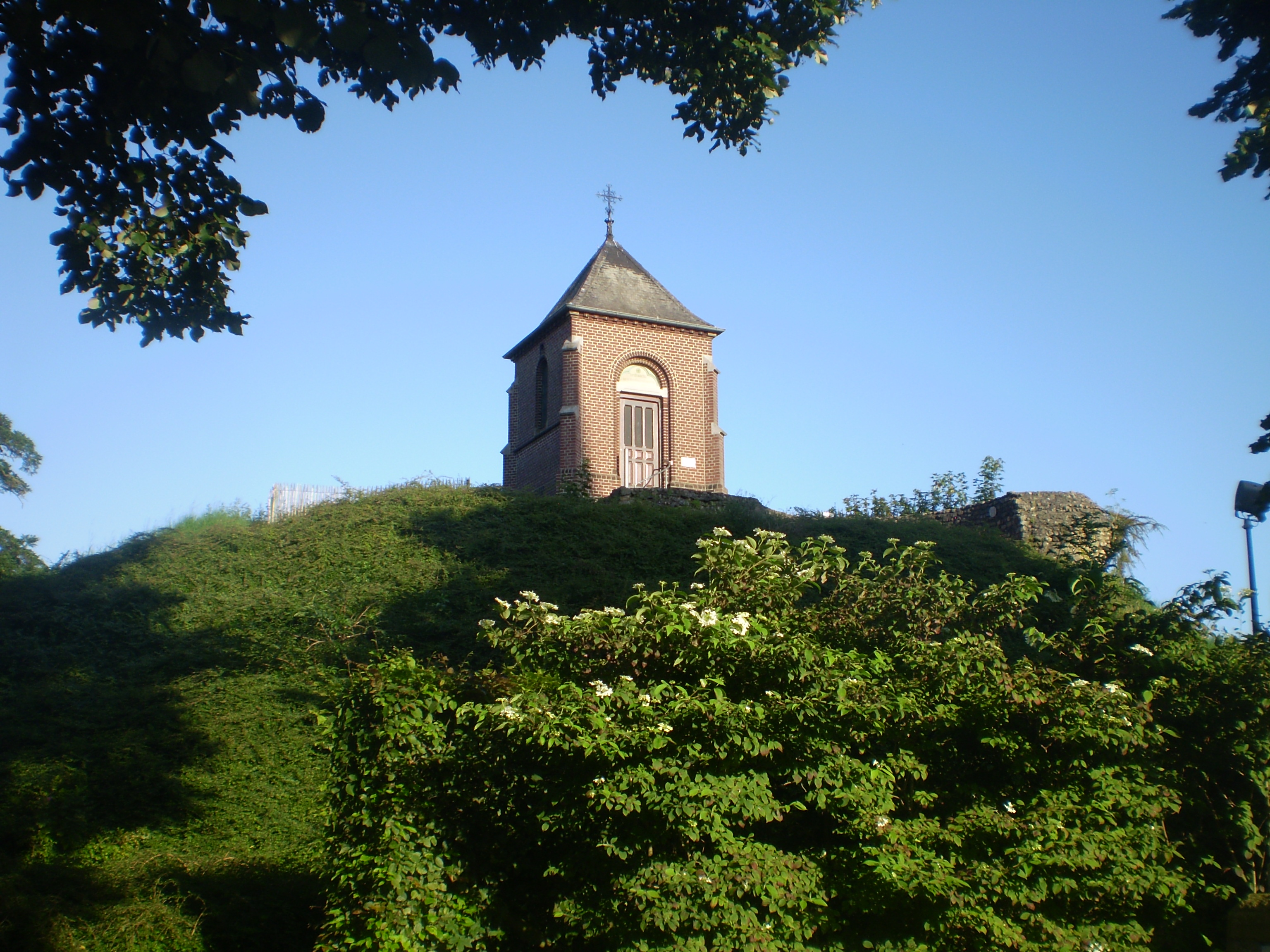 The motte of Kessenich (Belgium), on top of which the burial chapel of the family "Michiels van Kessenich" was built